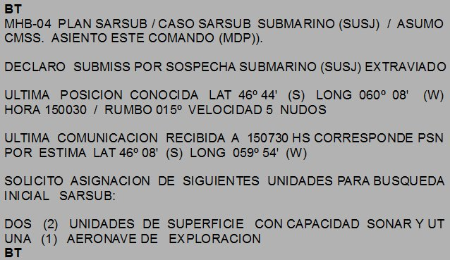 Cable de declaración del submarino ARA San Juan (SUSJ) perdido y declarando SAR. Fecha 15 de noviembre de 2017. Fuente: Infobae 16/11/2017